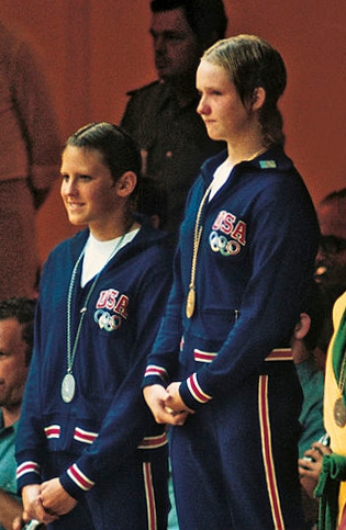 The young swimmers on the podium of the women's 100 metres freestyle; the winner Sandra Neilson and her fellow-American Shirley Babashoff, runner-up. Munich, 29th August 1972.